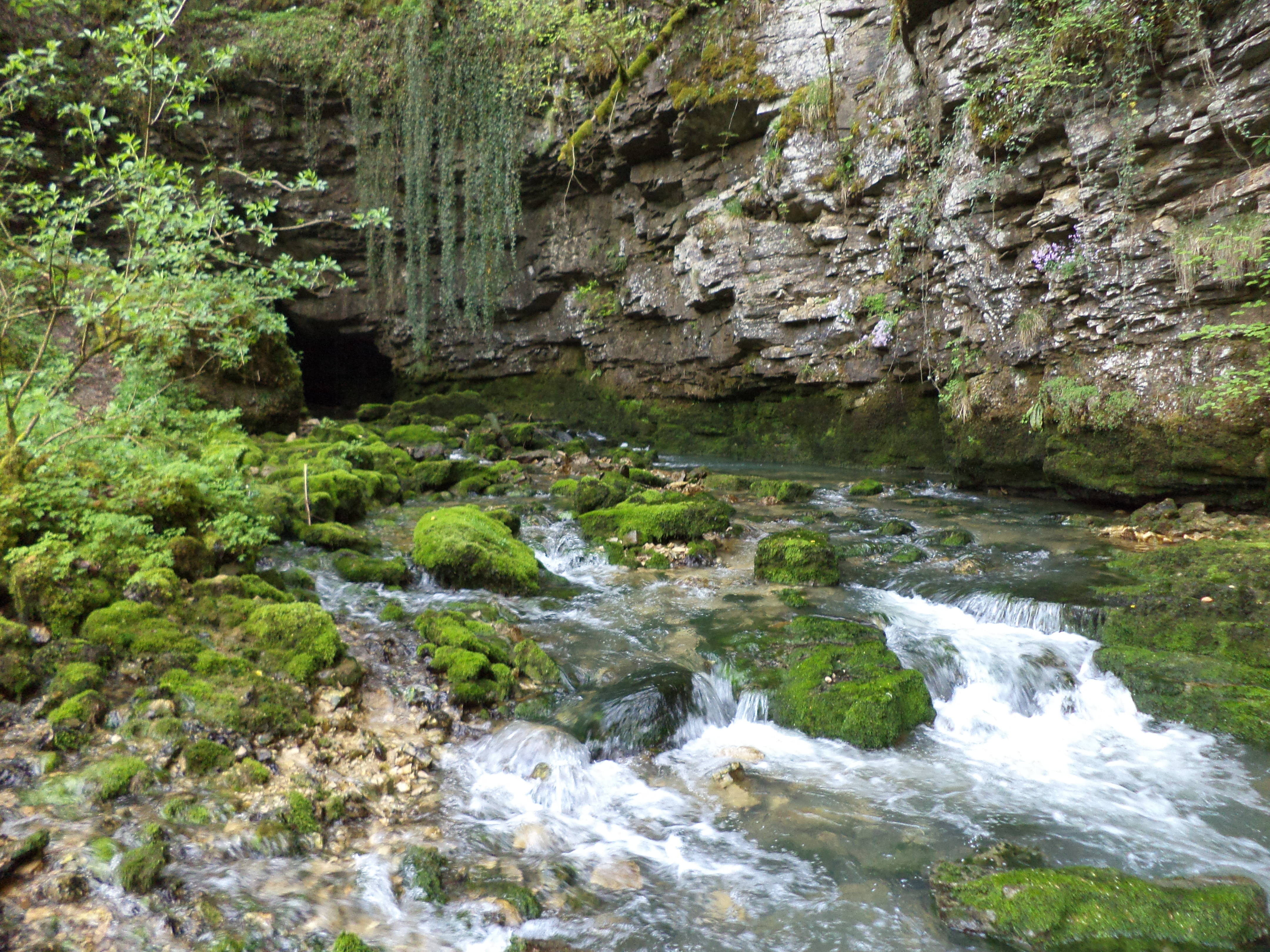 The karst spring "Source Noire" (black spring) in Cusance in the French Jura